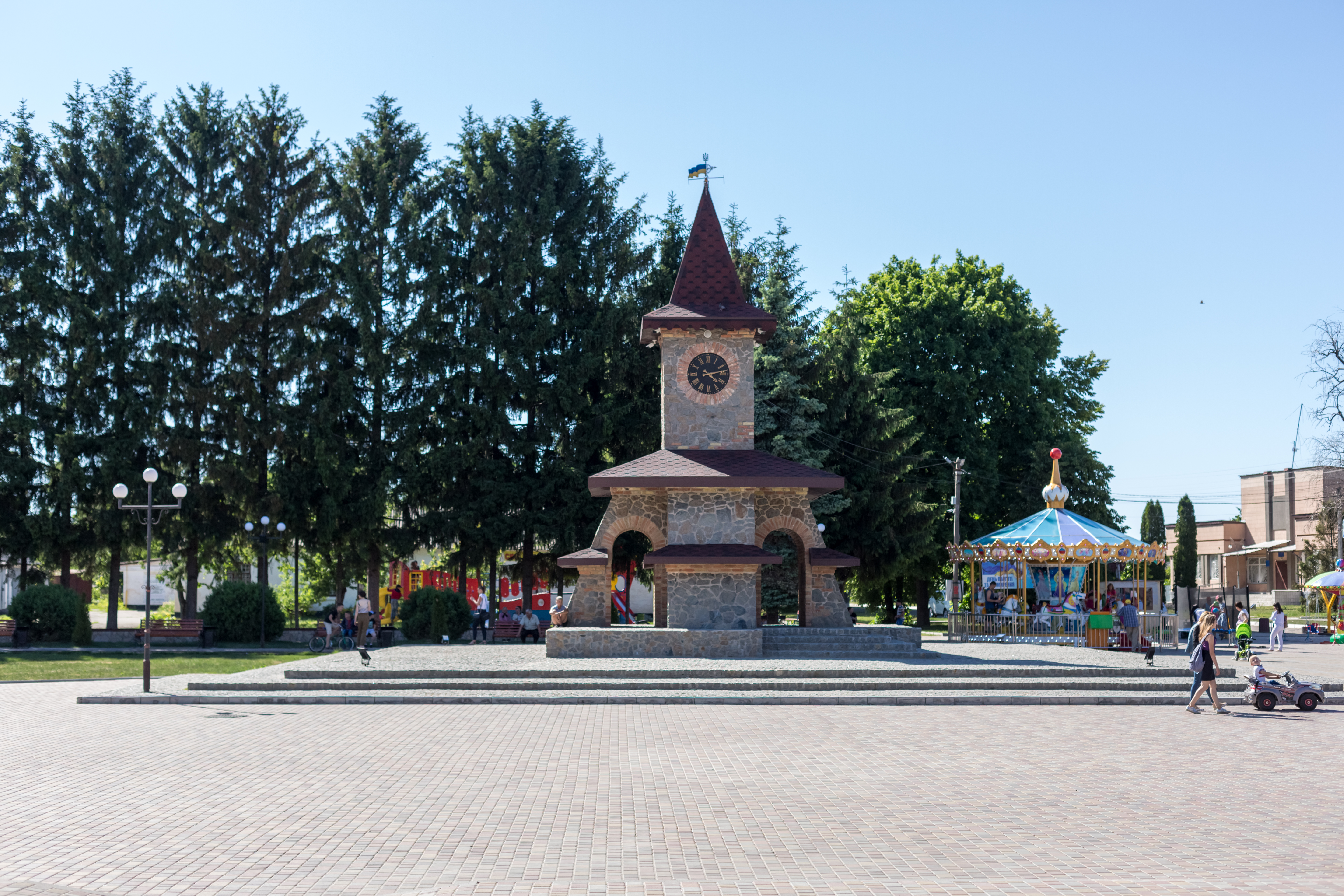 A picture of the center of Khrystynivka